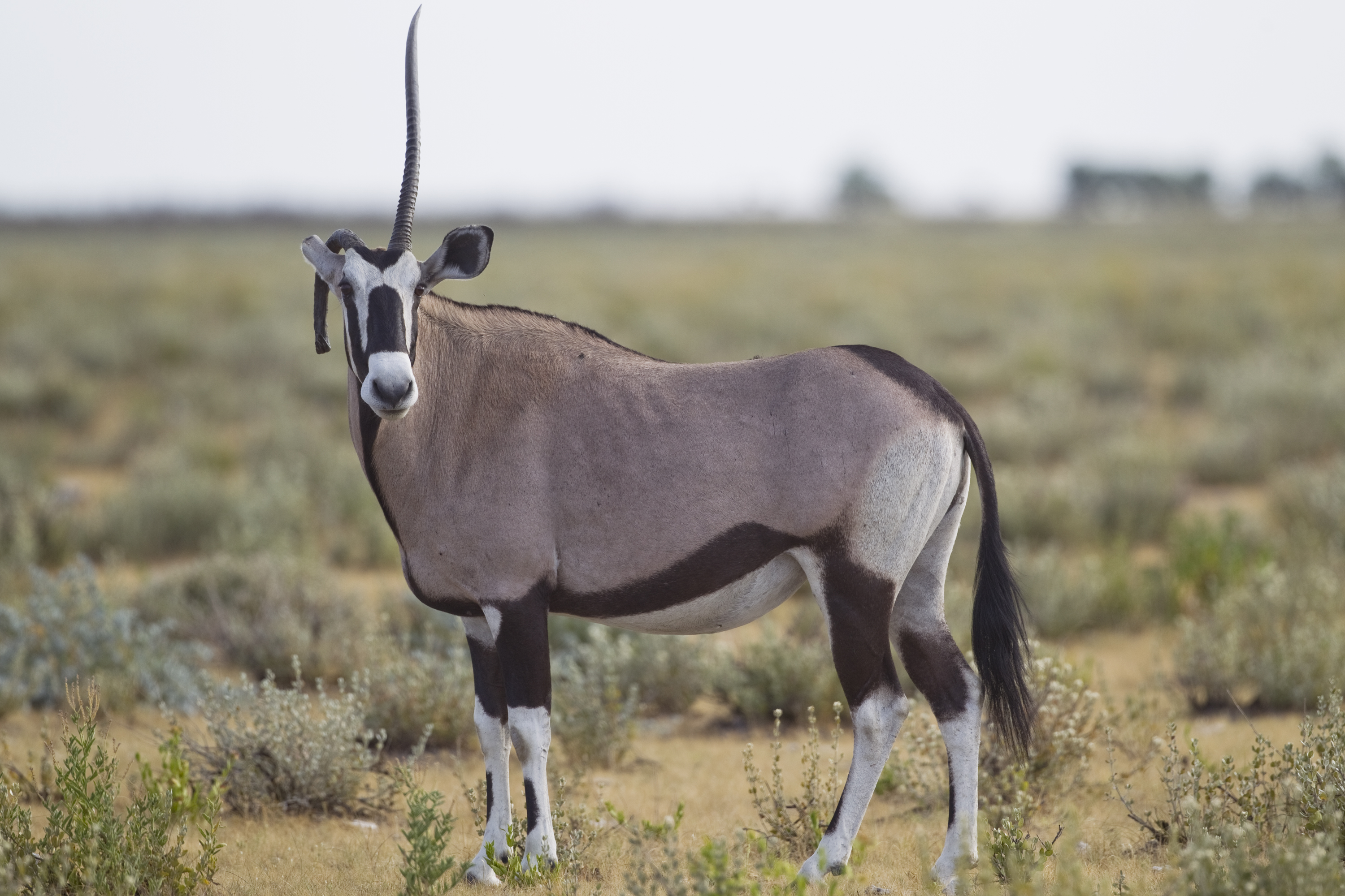 A one-horned oryx like this one could have given rise to the legend of the unicorn in ancient Egypt.